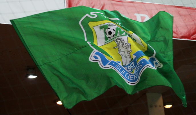 Flag of FC Tom Tomsk supporters